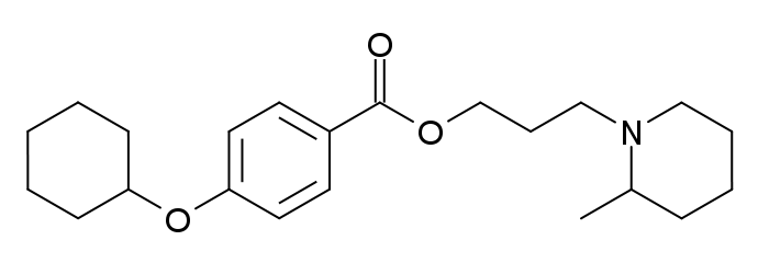 Structure of cyclomethycaine